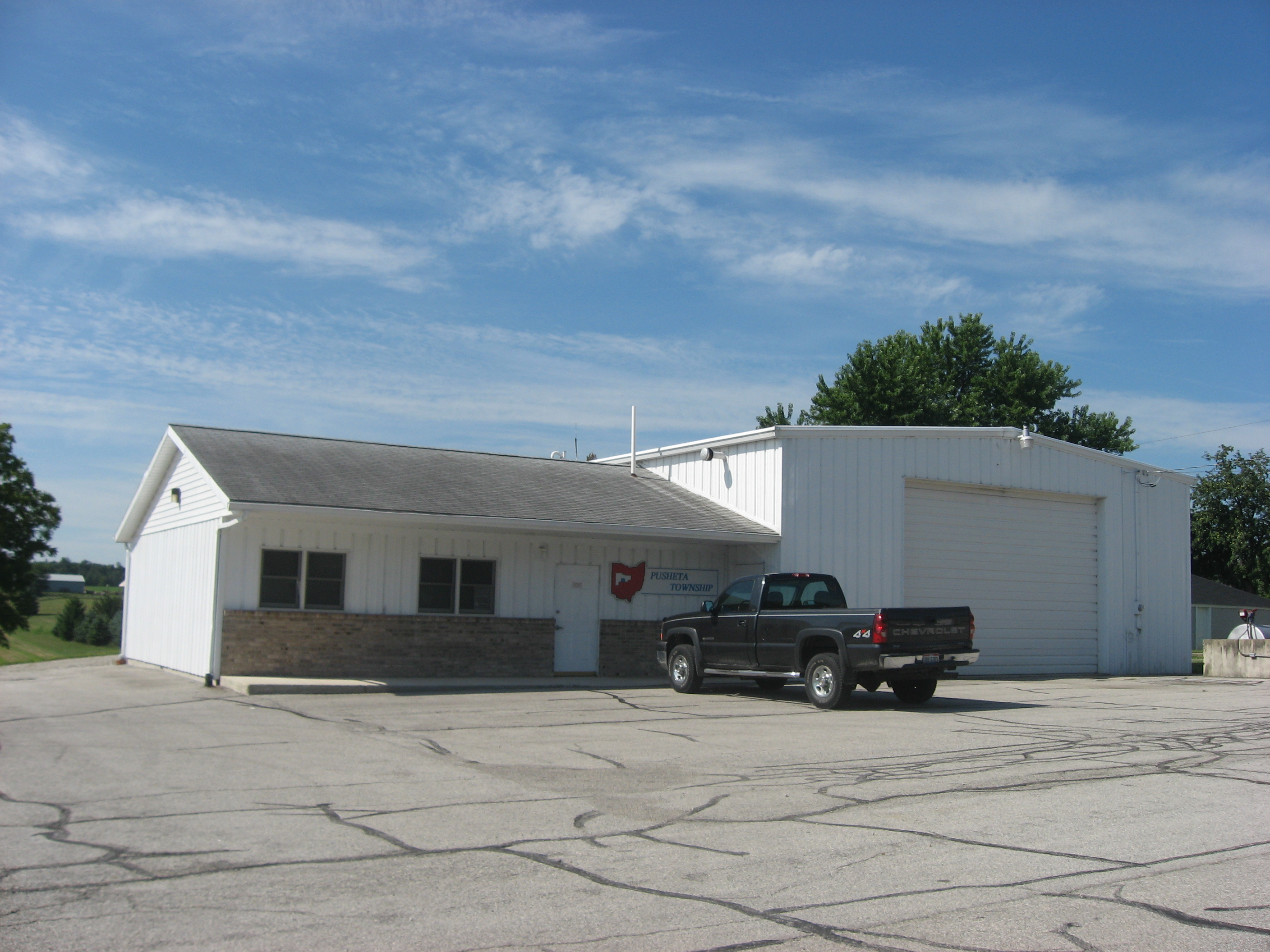 Pusheta Township hall in Fryburg, Ohio, United States, located along Sidney Street on the southern side of the community.